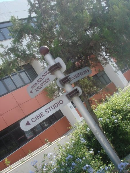 Different places at University of Nicosia area